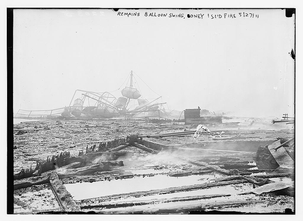 Bain News Service,, publisher. Remains balloon swing, Coney Island Fire, 1911 1911 May 27. 1 negative : glass ; 5 x 7 in. or smaller. Notes: Title an date from data provided by the Bain News Service on the negative. Forms part of: George Grantham Bain Collection (Library of Congress). Format: Glass negatives. Repository: Library of Congress, Prints and Photographs Division, Washington, D.C. 20540 USA, General information about the Bain Collection is available at Higher resolution image is available (Persistent URL): Call Number: LC-B2- 2203-5